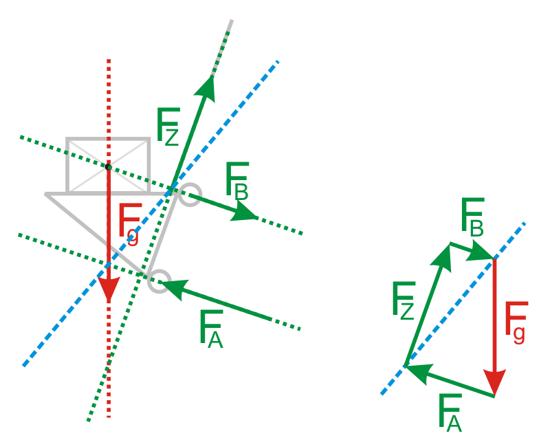 The Culmann method in a Simple Step